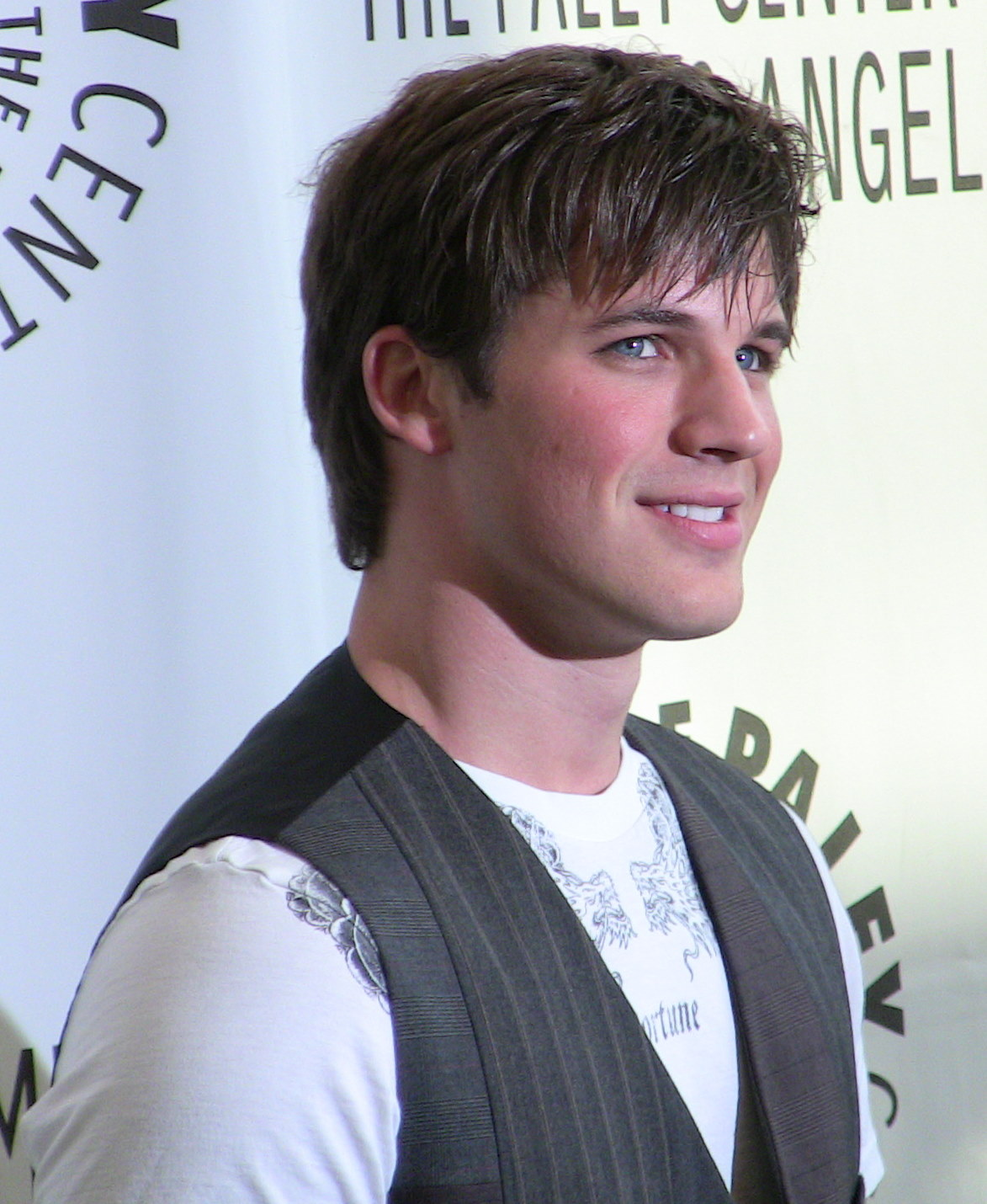 Actor Matt Lanter at 90210 Paley Fest. William S. Paley Center, Beverly Hills, California